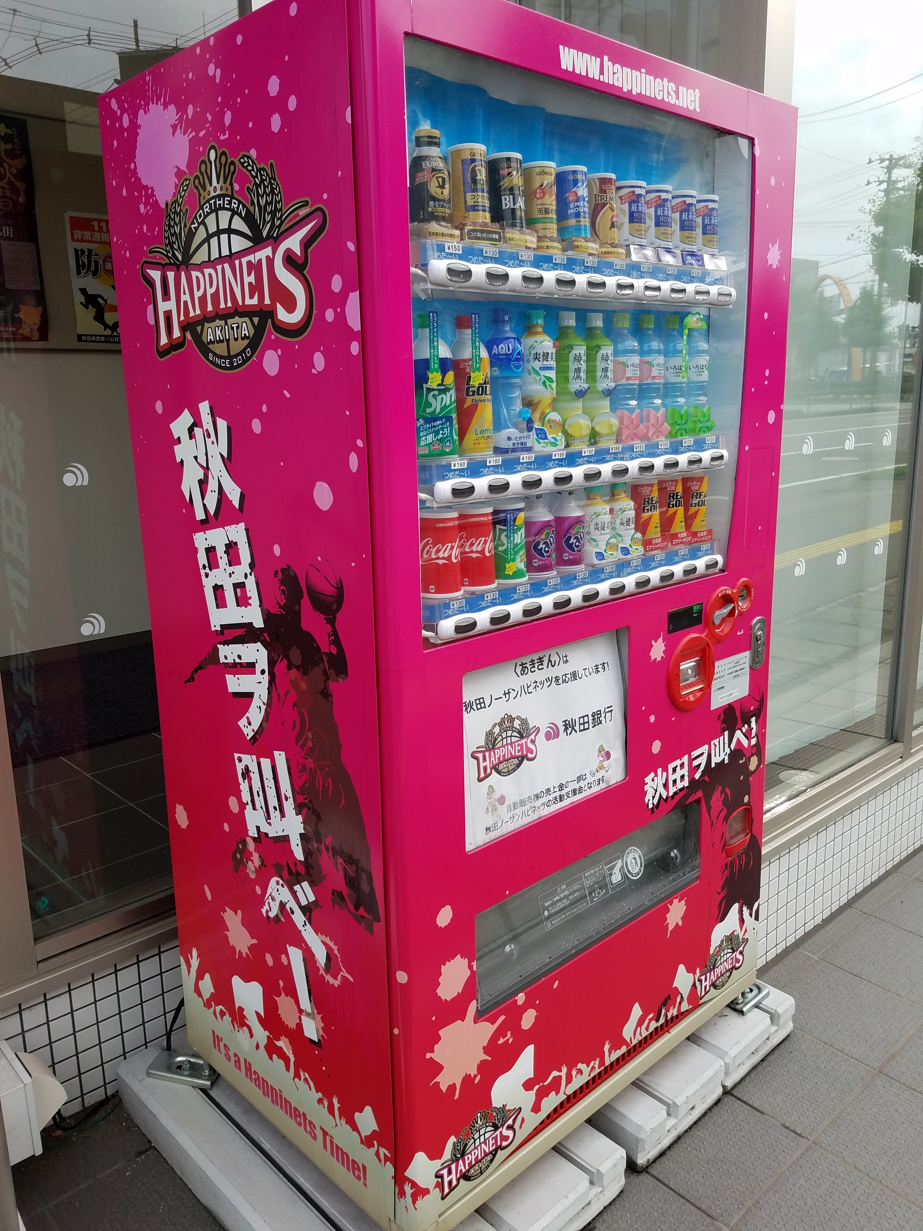 Happinets Vending Machine